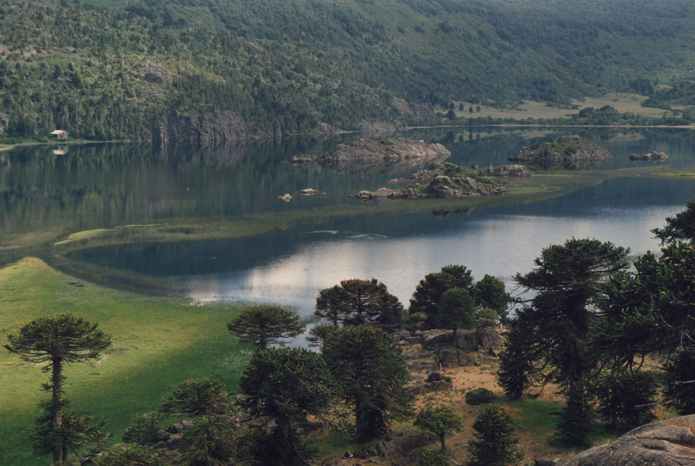 Araucaria araucana trees by lake - Neuquén Province - Argentina.